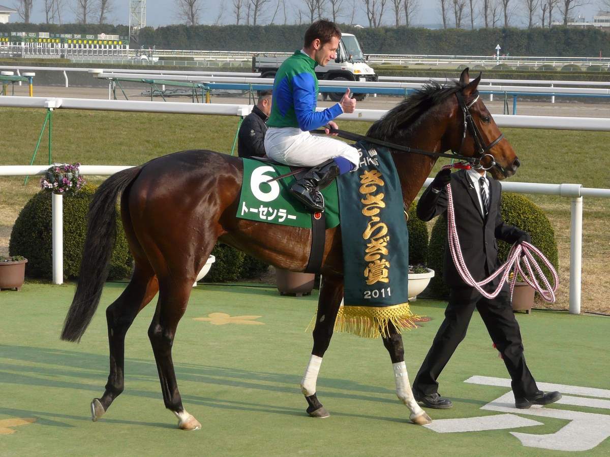 Tosen-Ra20110206